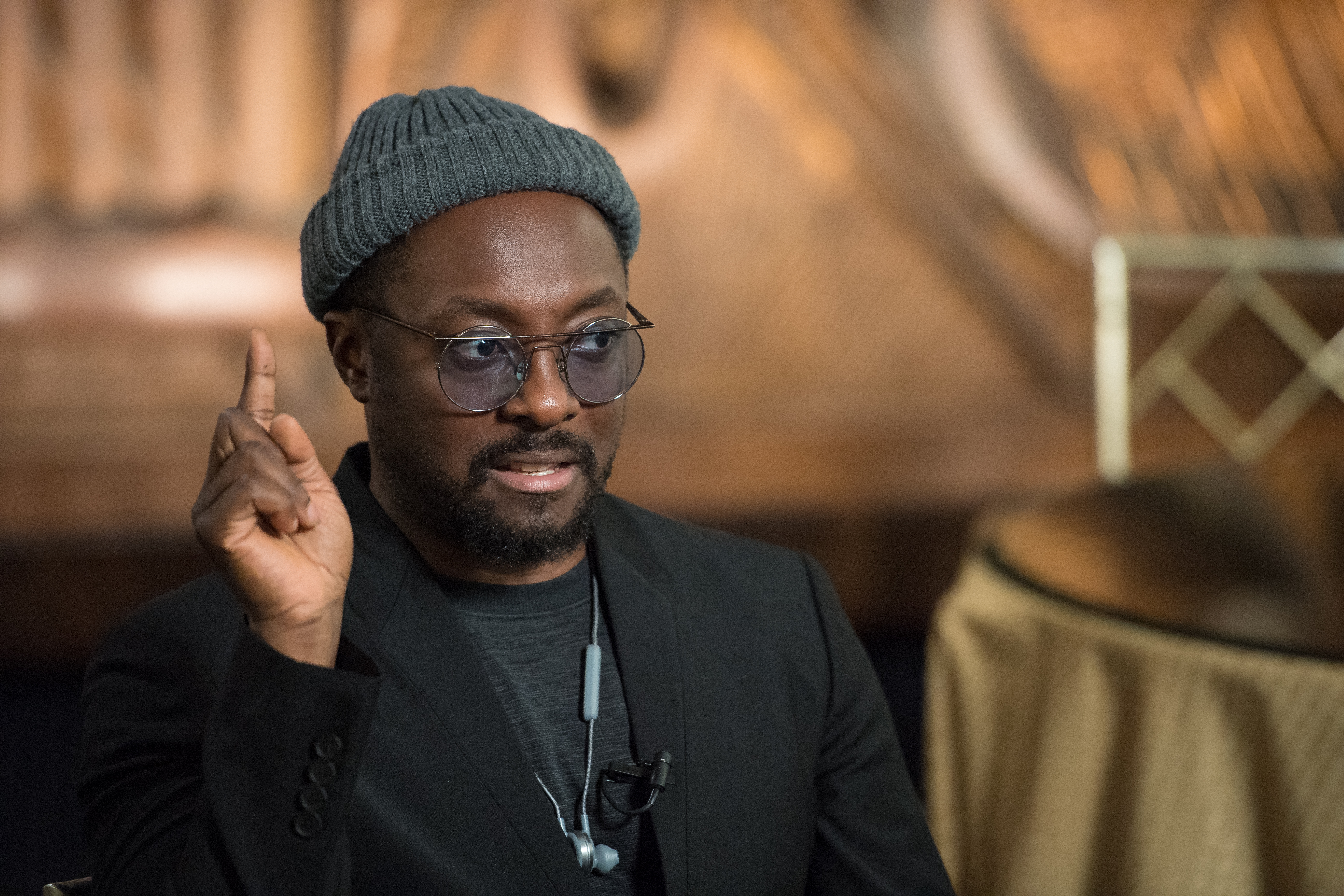 Will.i.am is interviewed by NASA TV, Friday, June 1, 2018 at the John F. Kennedy Center for the Performing Arts ahead of the "National Symphony Orchestra Pops: Space, the Next Frontier," celebrating NASA's 60th Anniversary in Washington DC. The event featured music inspired by space including artists Will.i.am, Grace Potter, Coheed & Cambria, John Cho, and guest Nick Sagan, son of Carl Sagan.